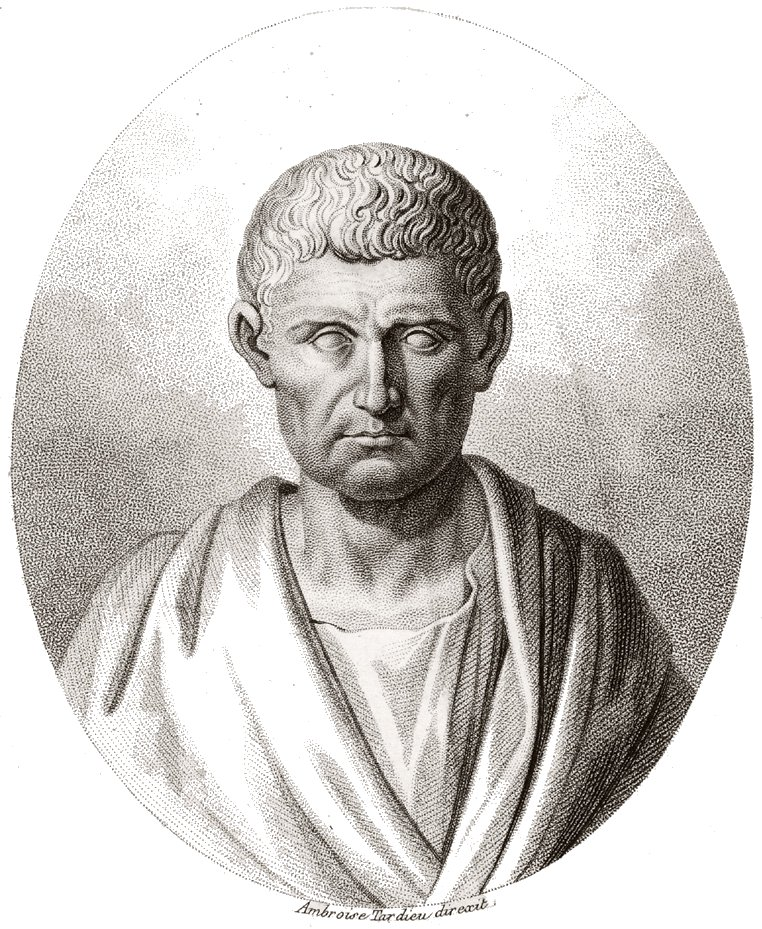 aristotle